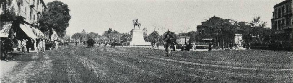 A panoramic view of the courtyard in front of the Place de L'Opera in Cairo.